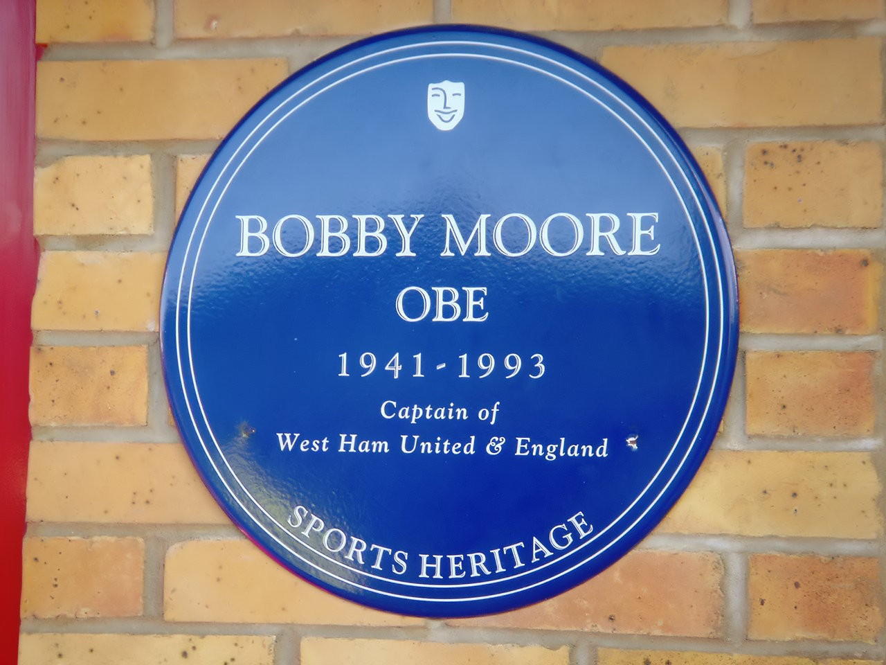 Sports Heritage Blue Plaque for Bobby Moore at West Ham's Boleyn Ground